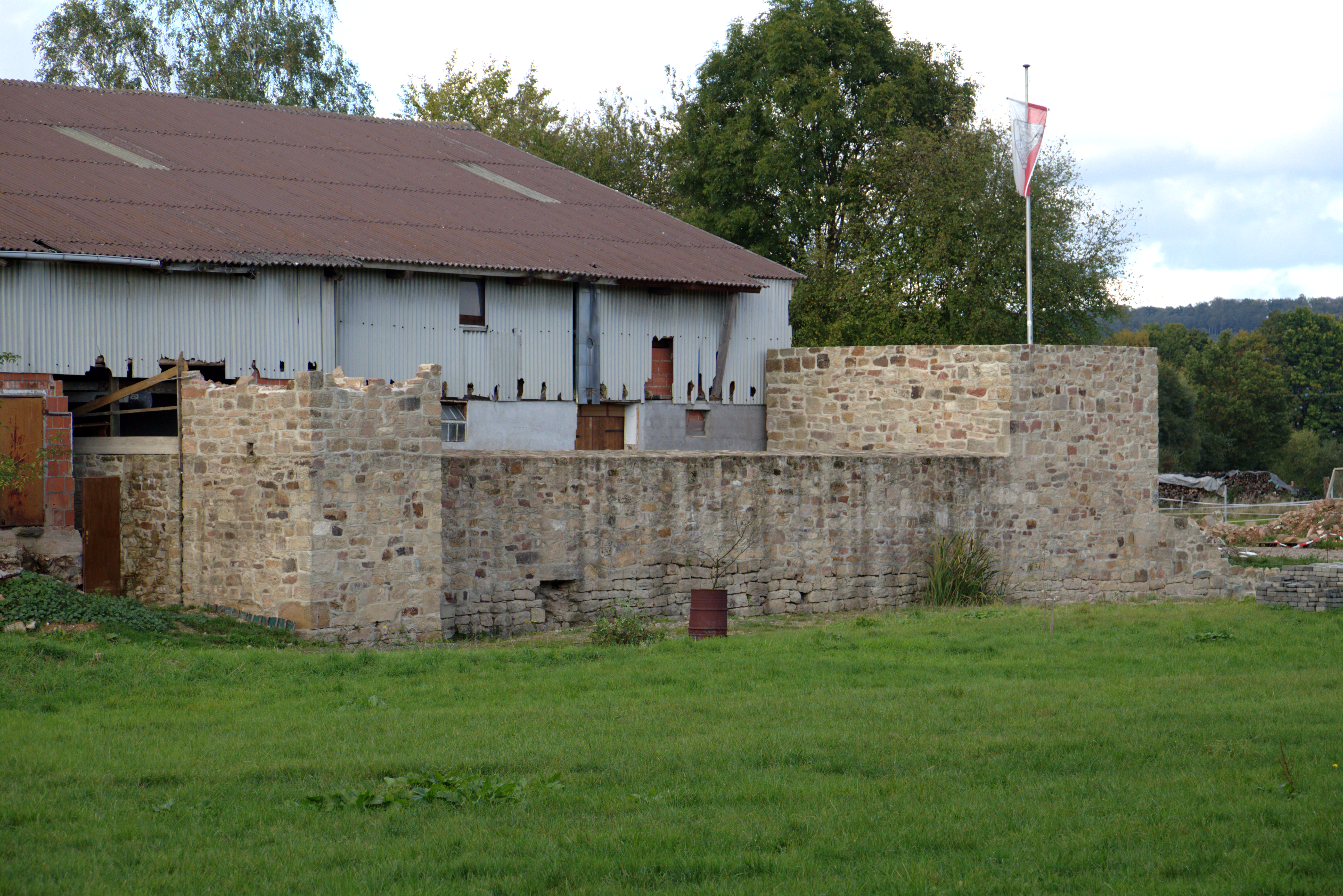 Ruin "Wasserburg" in Steinau, Petersberg, Hesse, Germany